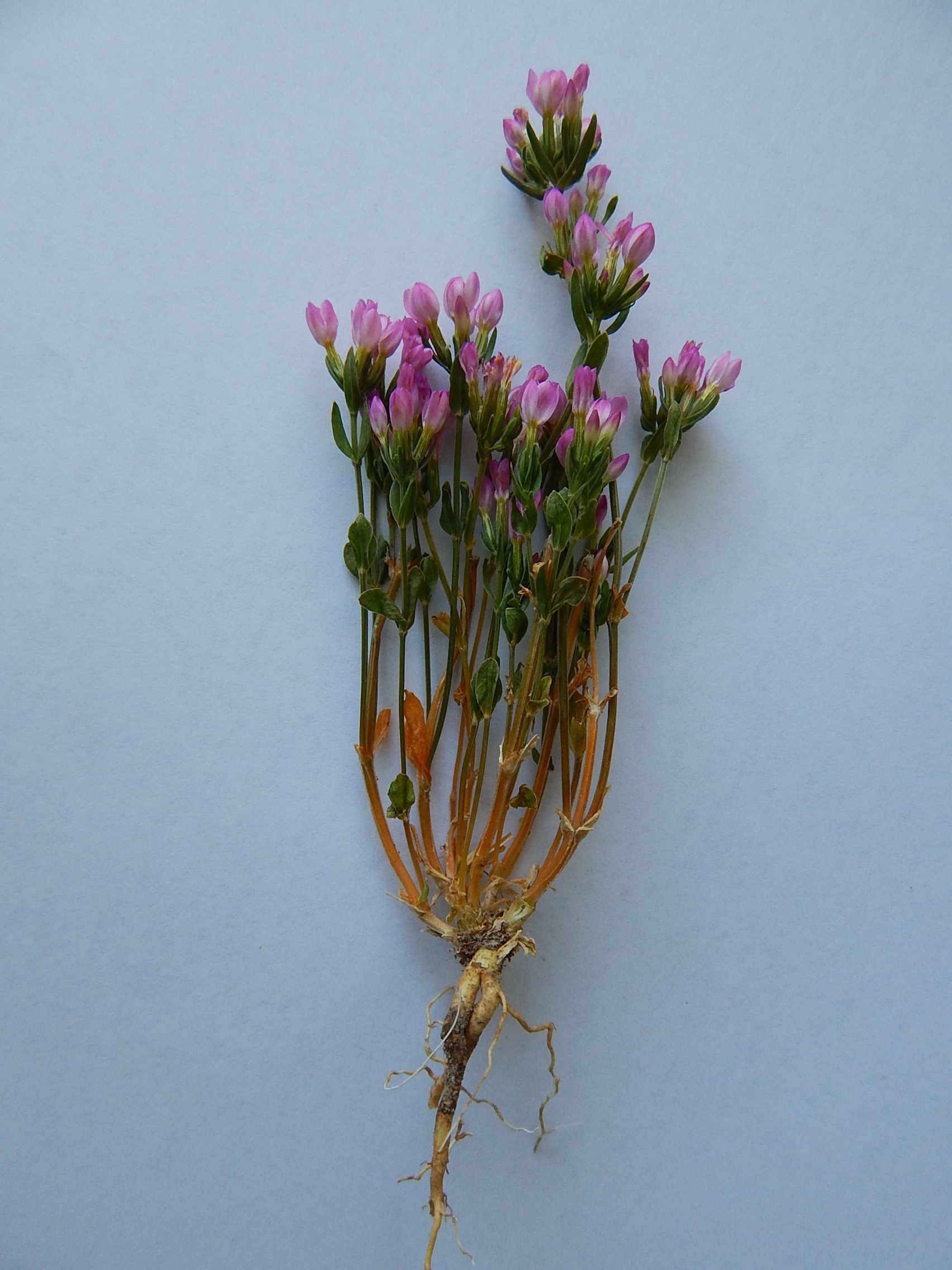 Centaurium erythraea sample of common centaury, Auburn WA